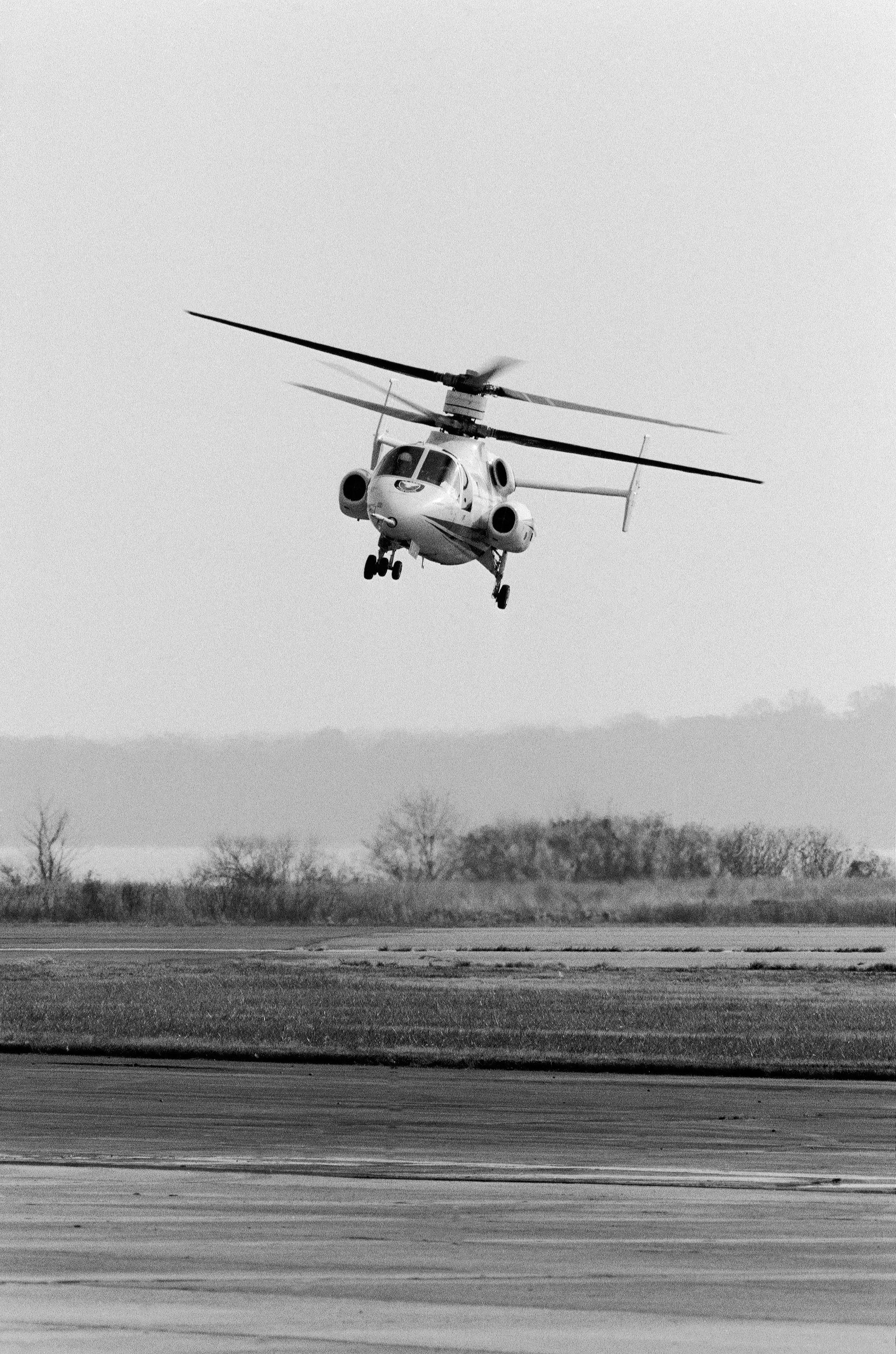 Front view of an XH-59A Advancing Blade Concept (ABC) rotor system aircraft in flight at the Marine Corps Development and Education Command Air Facility.